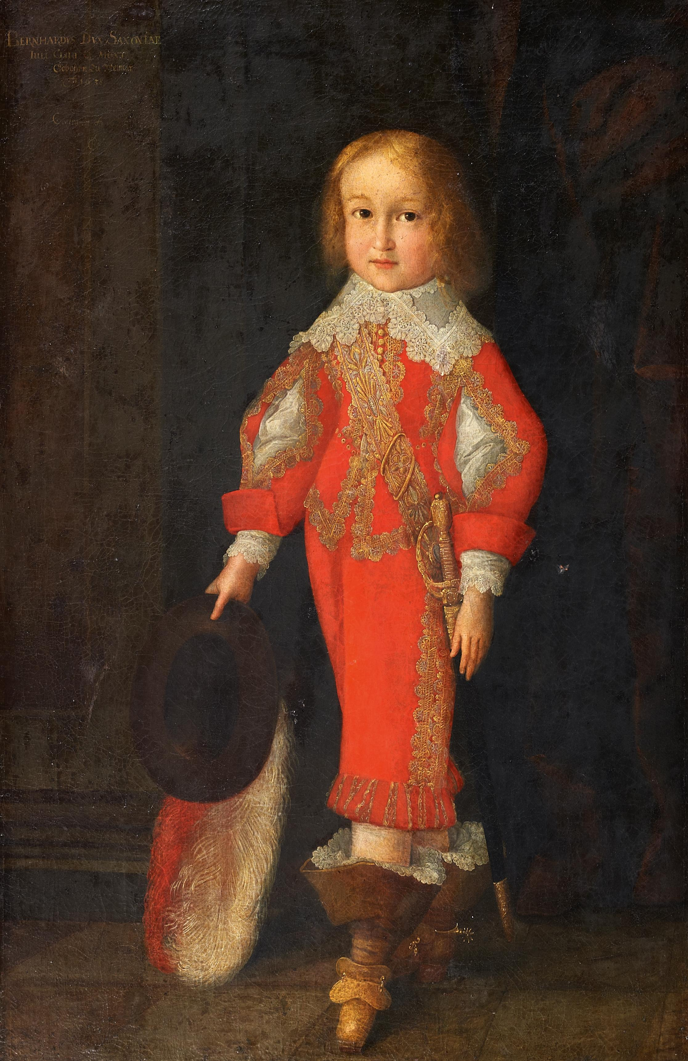 Portrait of Bernhard of Saxe-Jena (1638-1678)